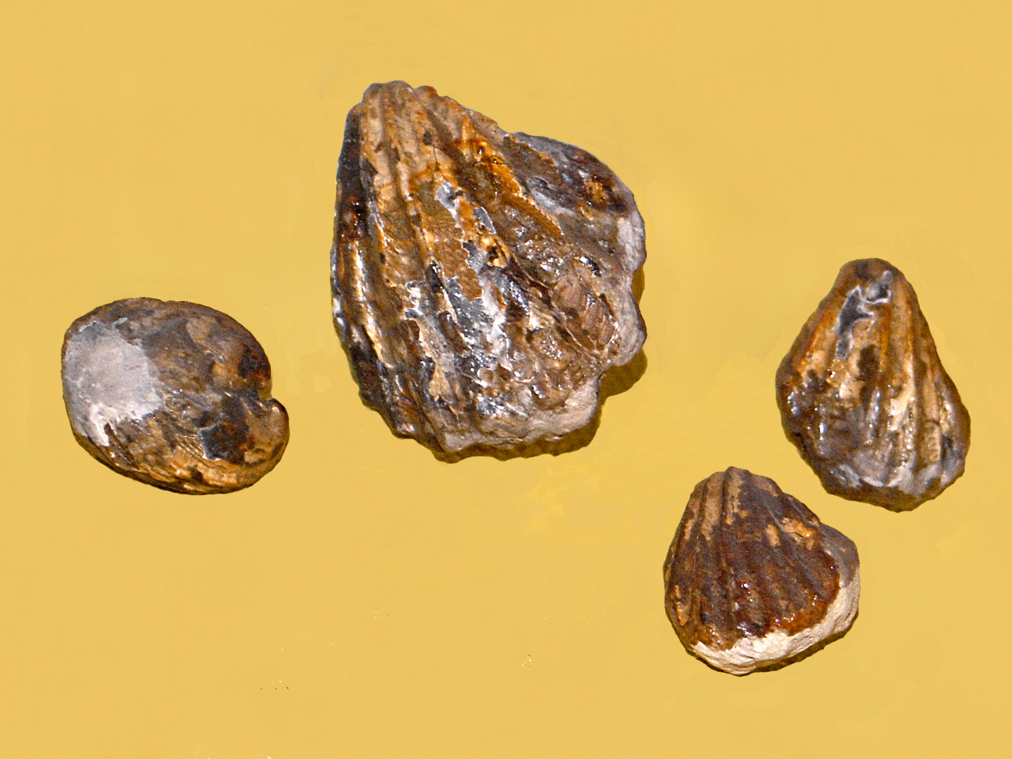 Fossil Inoceramus (Actinoceramus) sulcatus from the Albian age of England at Gallery of Paleontology and Comparative Anatomy, Paris.